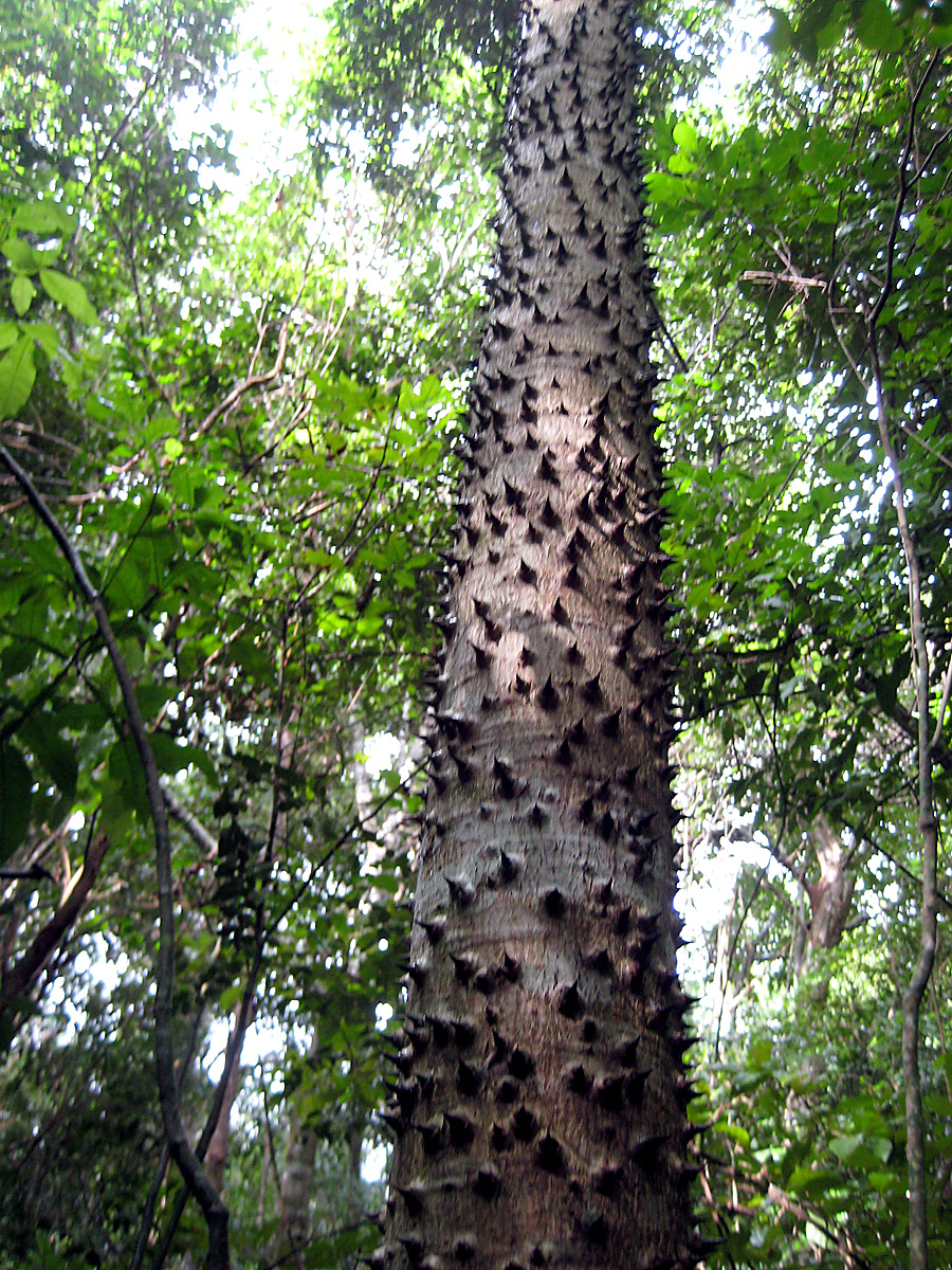 Sandbox tree in St. John, USVI